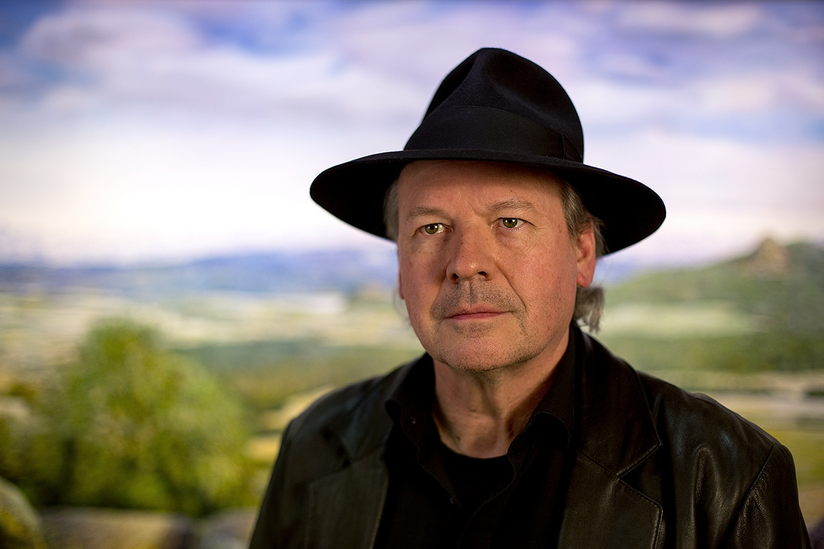 Portrait of Matthias Holländer